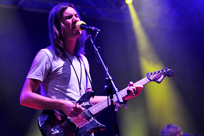 On The Bright Side festival 2011.